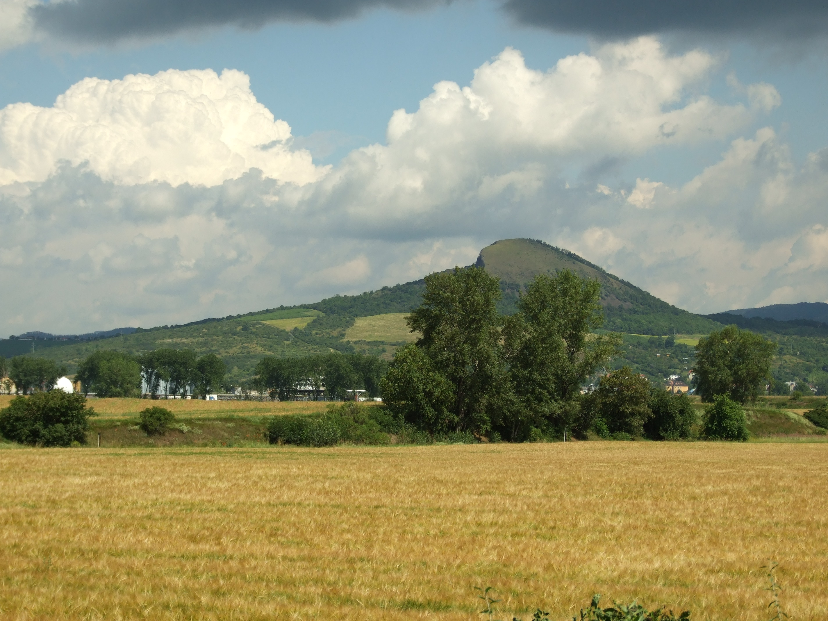 Radobýl hill seen not far from Lukavec village, Ústí nad Labem Region, CZhelp